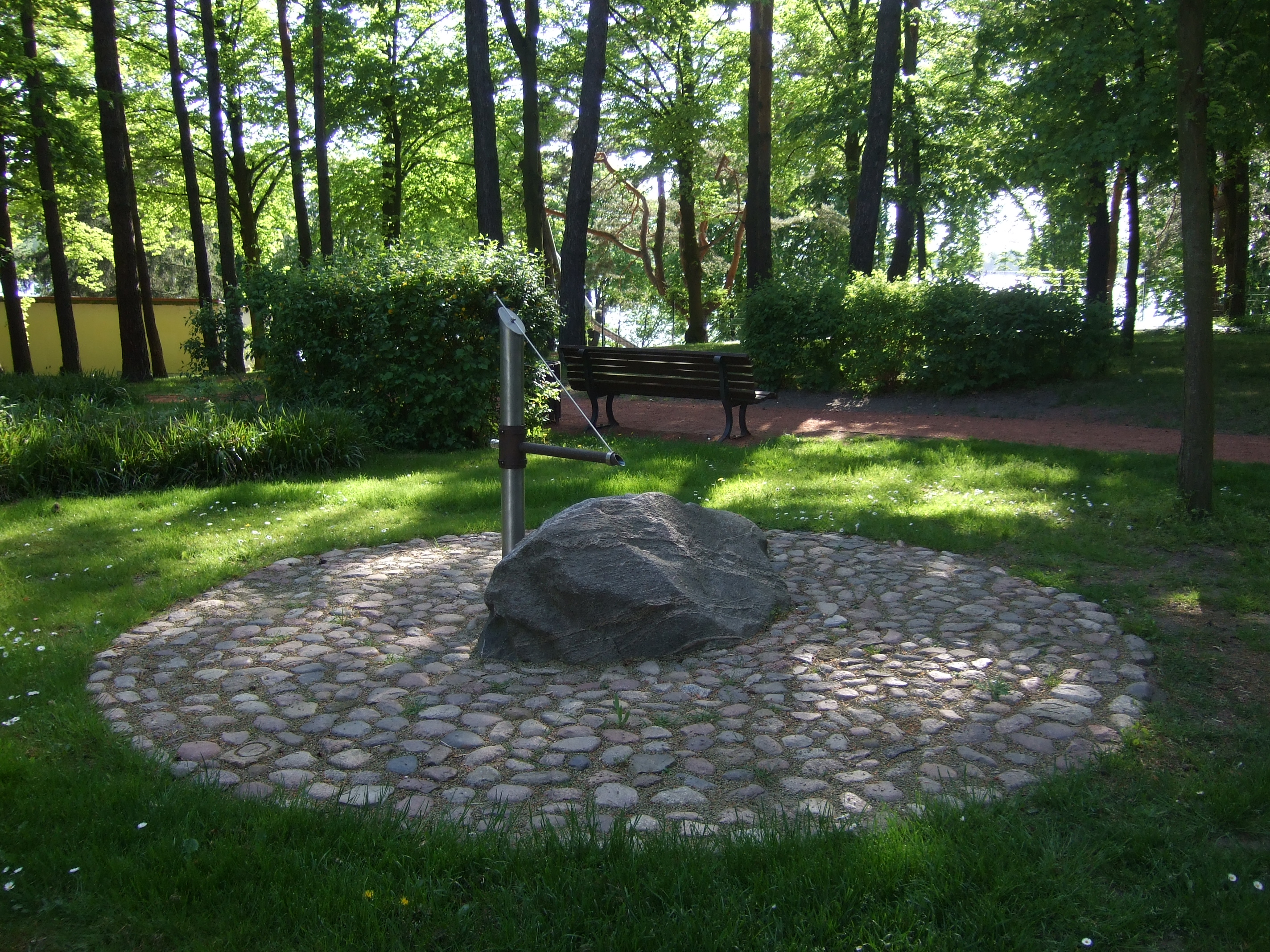 Drainage divides stone in Wandlitz, Brandenburg, Germany.